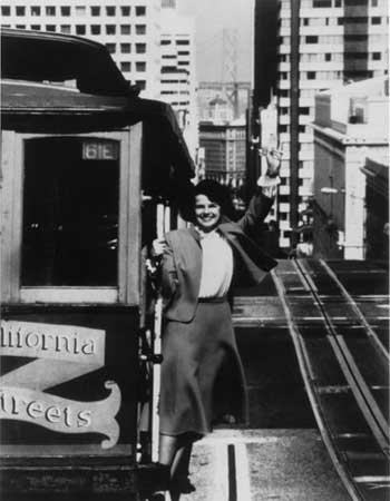 Diane Feinstein as Mayor of San Francisco on a cable car, between 1978-1988.